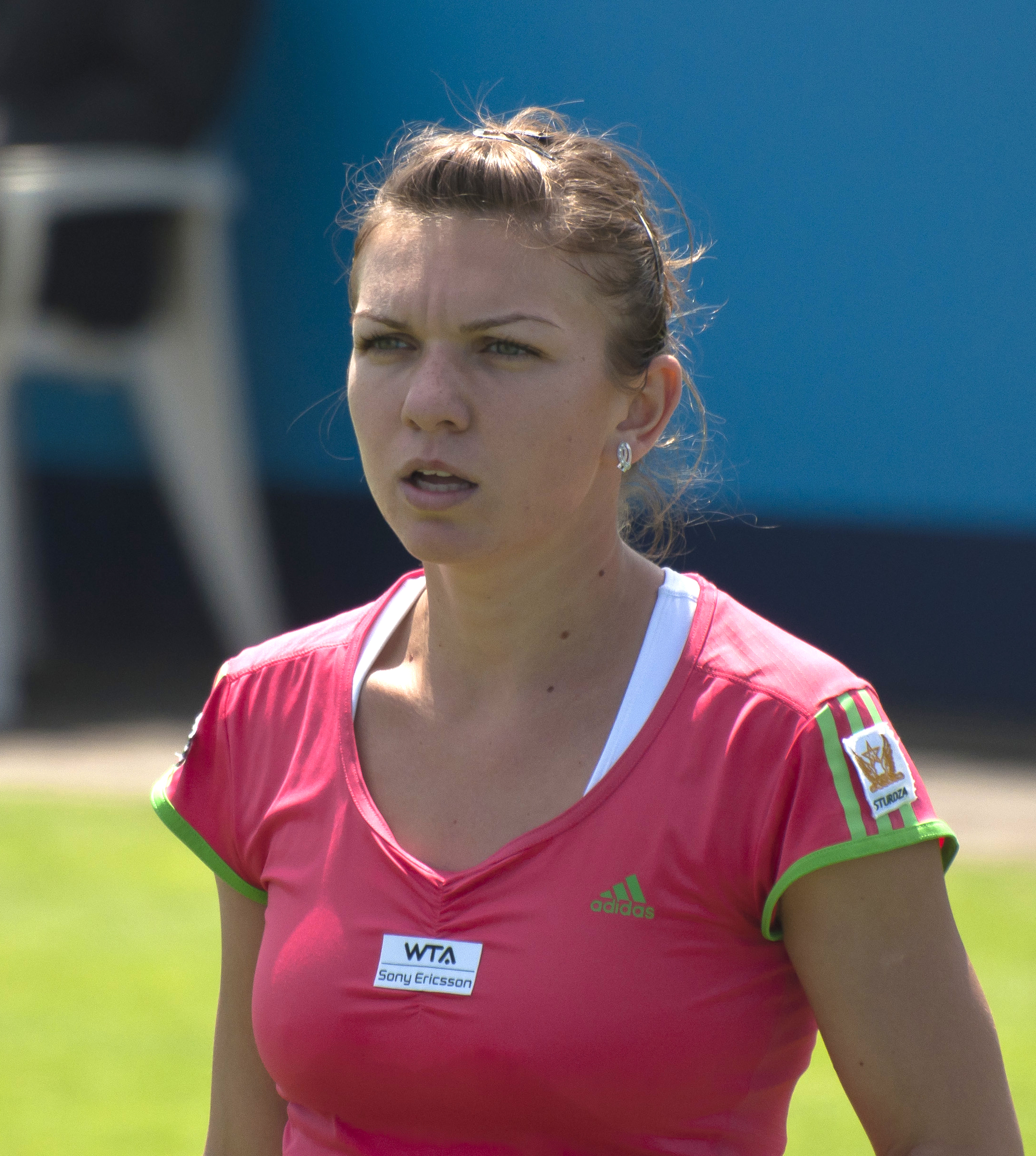 Simona Halep at the 2011 Unicef Open against Dominika Cibulkova.